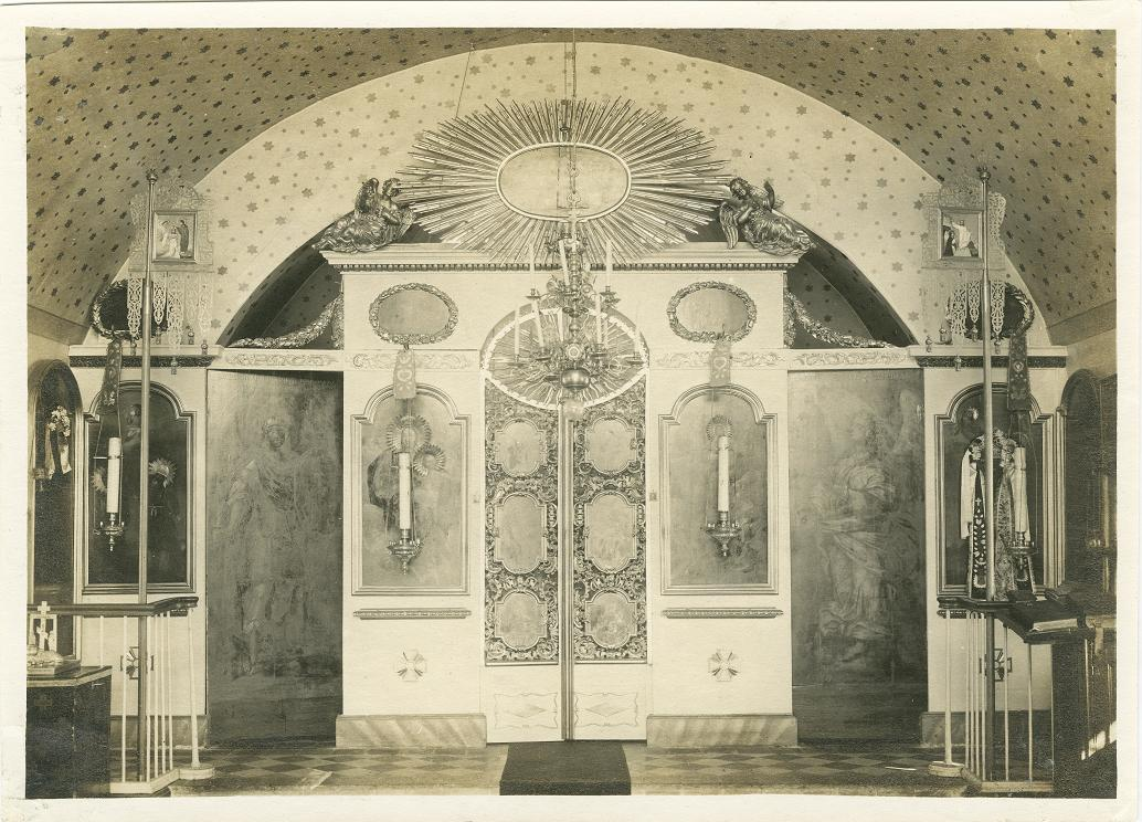 Kolpino (Russia), city cemetery, St. Nicholas church.